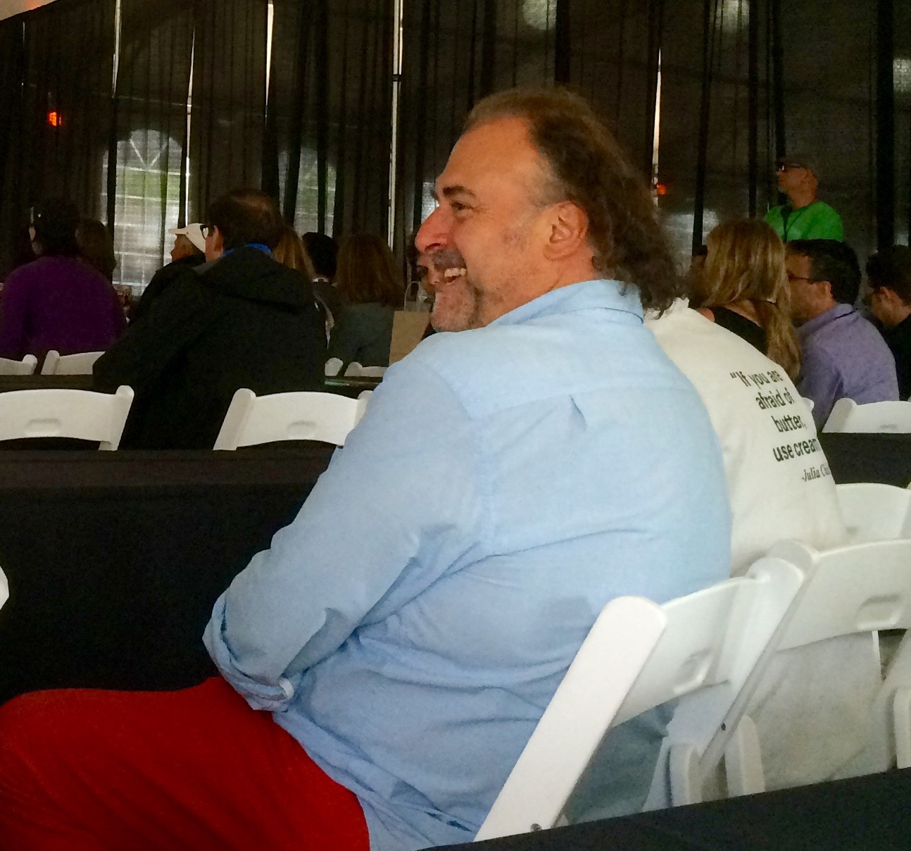 Jean-Robert de Cavel at the 2015 Cincinnati Food + Wine Classic